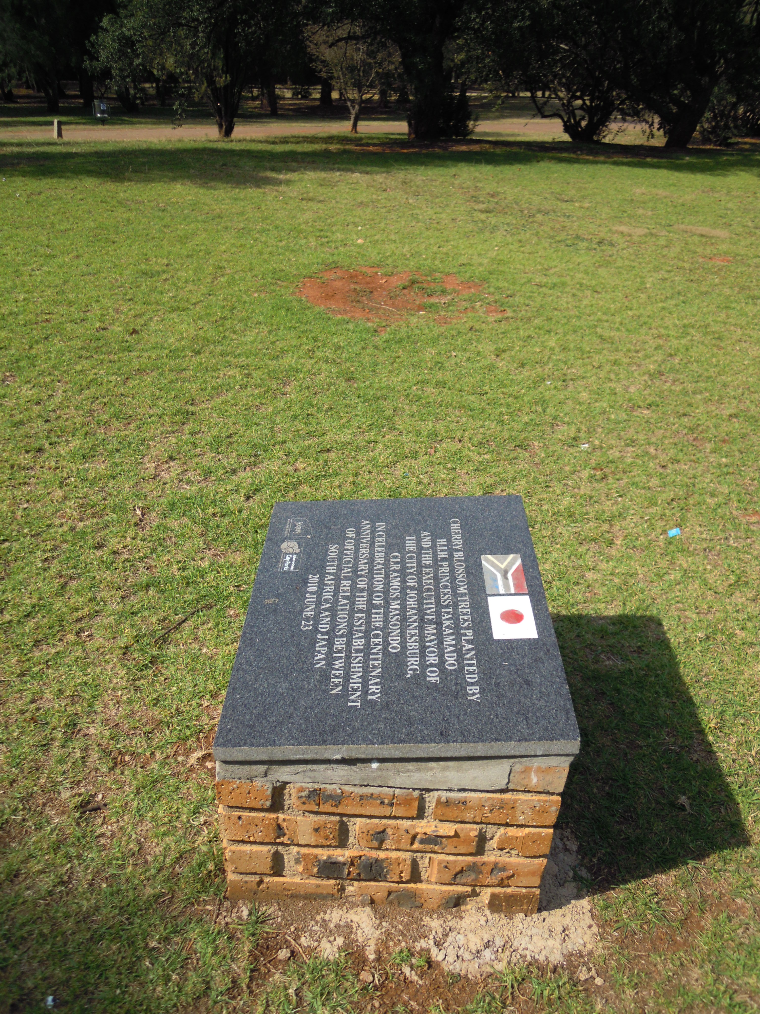 The photo is used to illustrate the planting of memorial trees and their subsequent disappearance